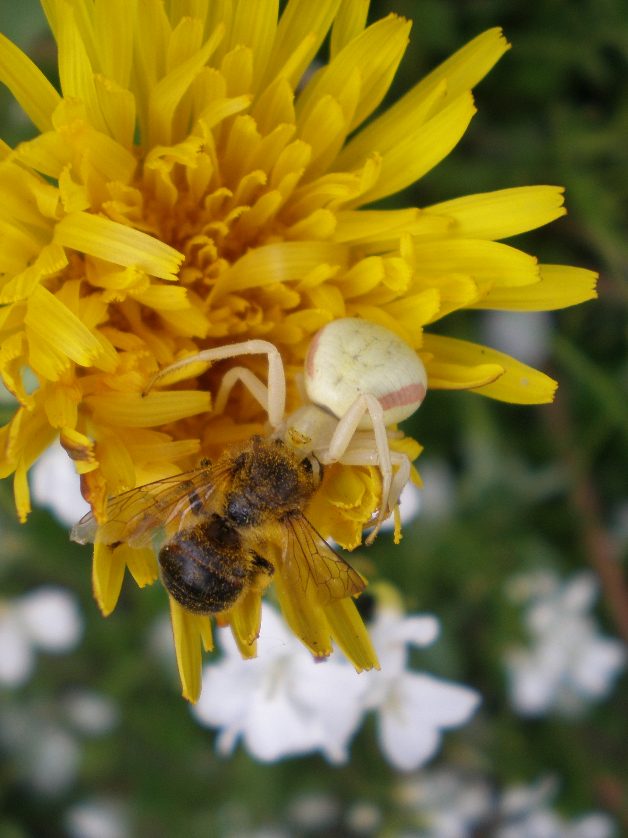 Crab spider/ Lithuania